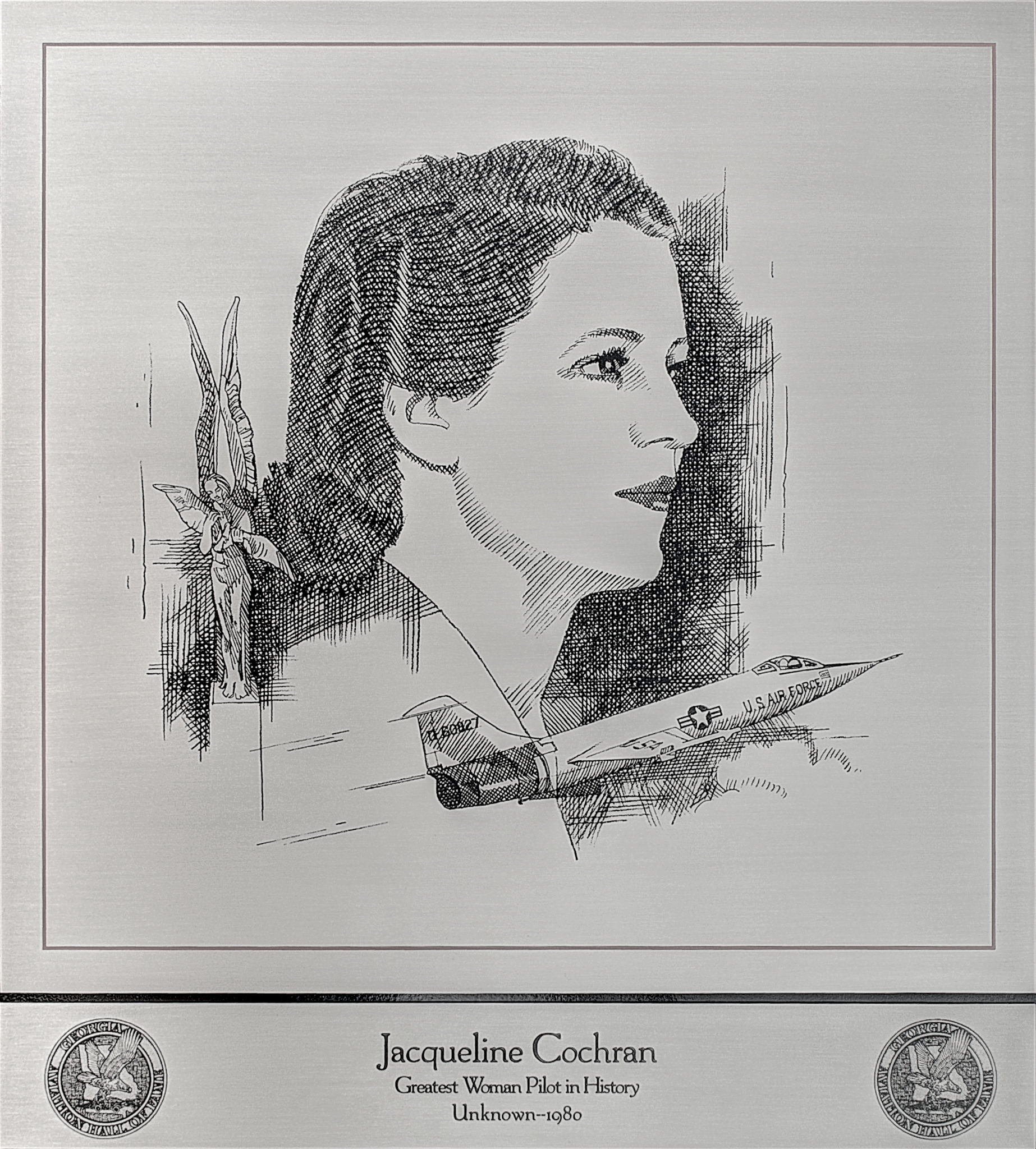 Jacqueline Cochran (1906-1980)